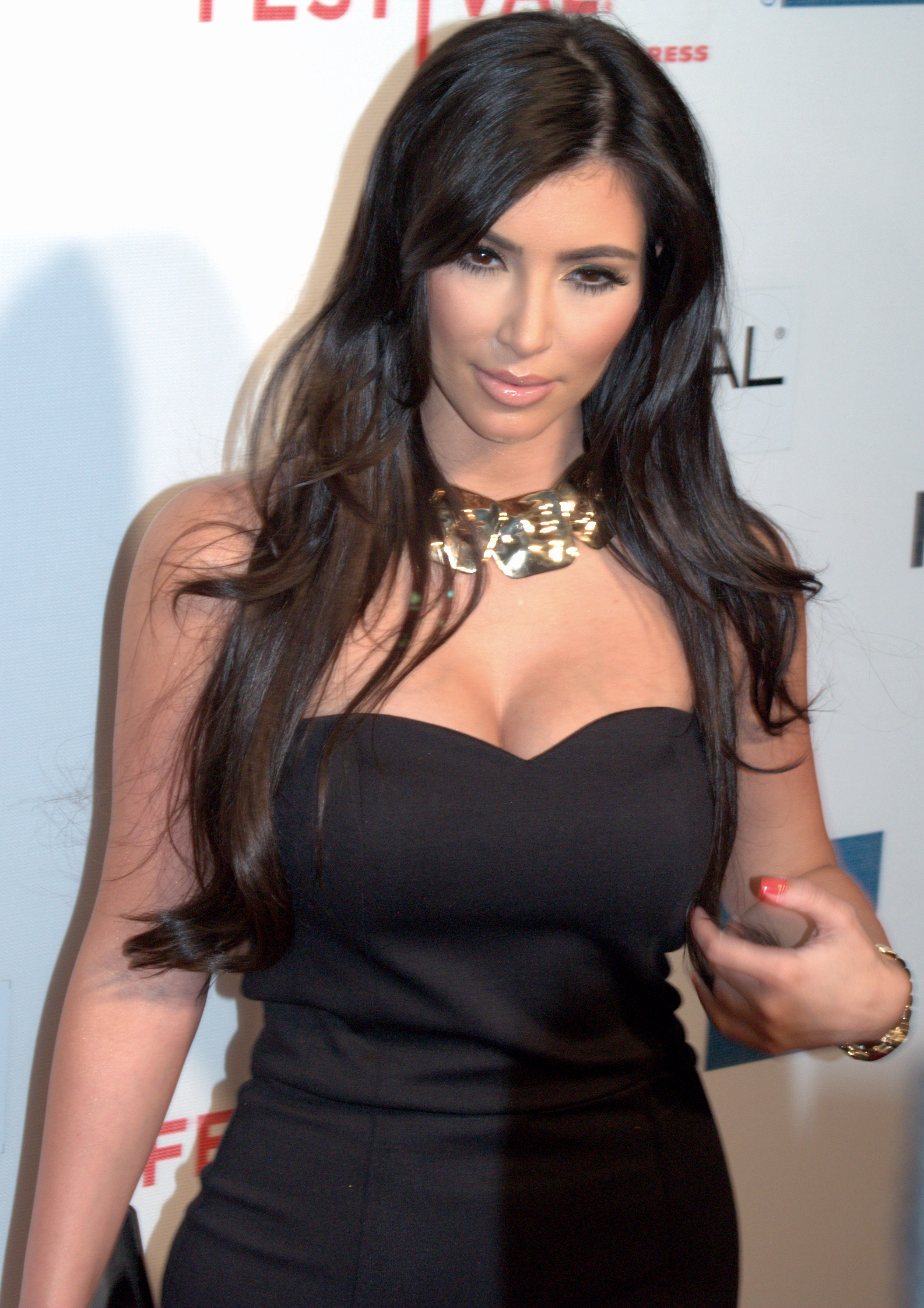 Kim Kardashian at the 2009 Tribeca Film Festival for the premiere of Wonderful World. Photographer's blog post about these photos.